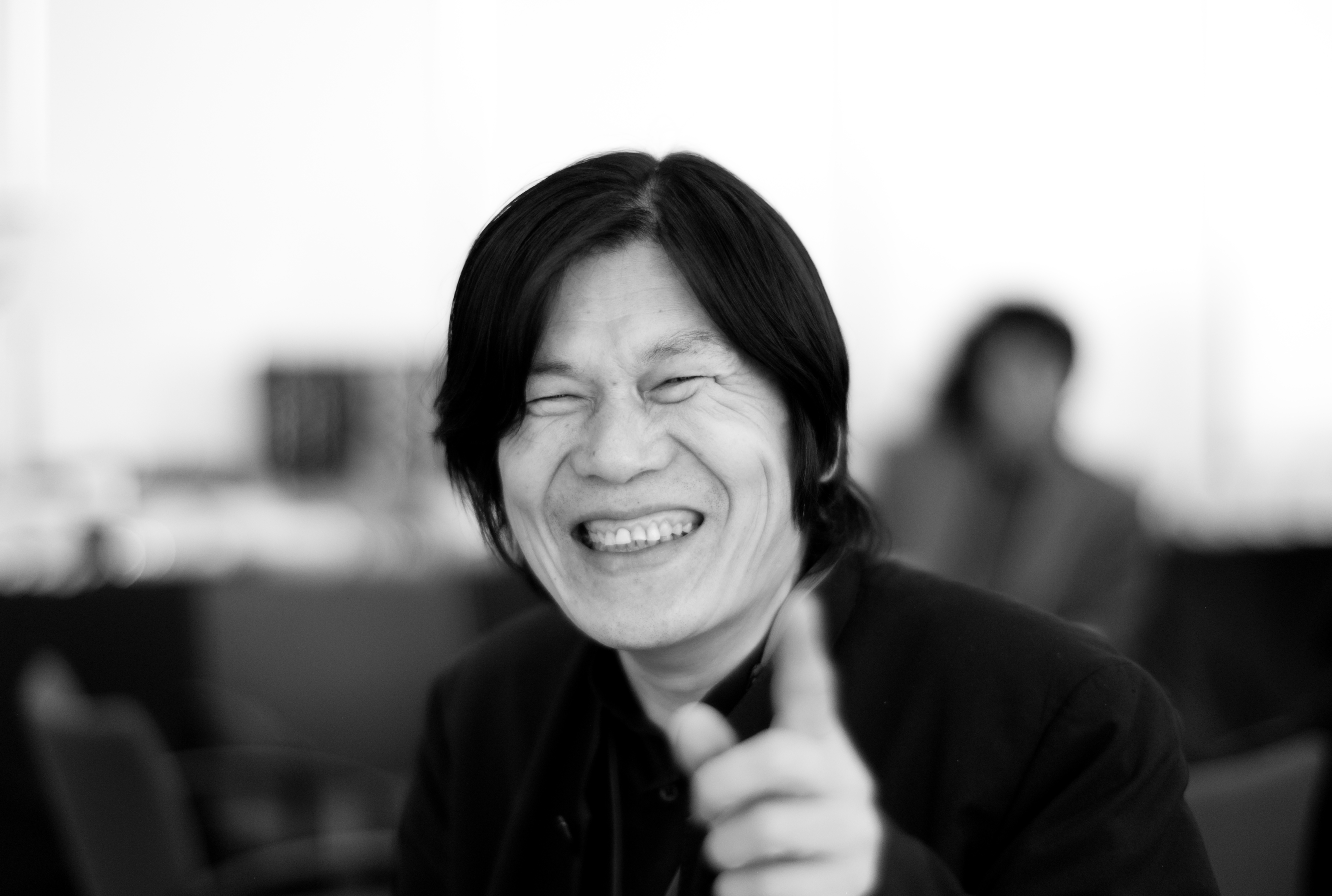 Yoichiro is a computer graphics artist and a professor at Tokyo University.